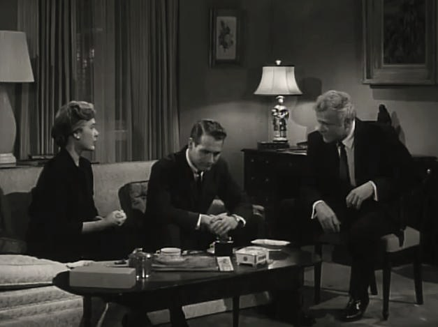 Left to right: Diane Brewster, Paul Newman, and Brian Keith in The Young Philadelphians - trailer (cropped screenshot)